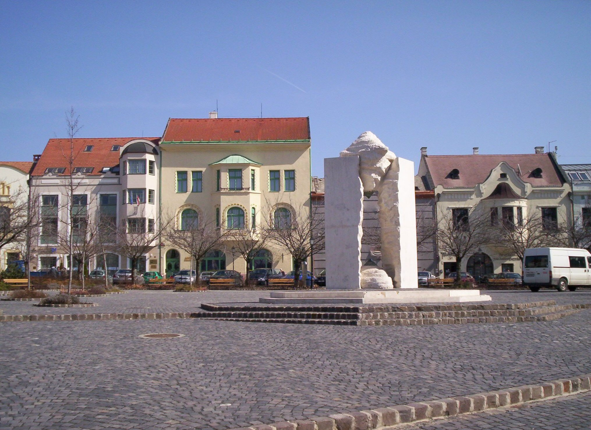 Description: Houses on the Óváros (Old town) Square and the millenial memorial, Veszprém